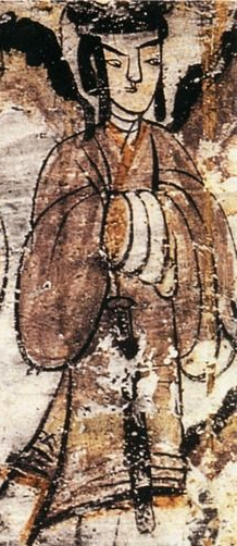 Zhang Liang，marquis wencheng of Liu 中文（中国大陆）: 留文成侯张良